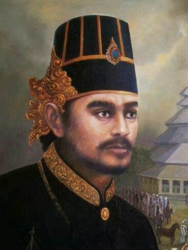 Maulana Hasanuddin was the first sultan of the Sultanate of Banten. Together with his father, Sunan Gunungjati, Hasanuddin founded the Sultanate of Banten on the western tip of Java Island.